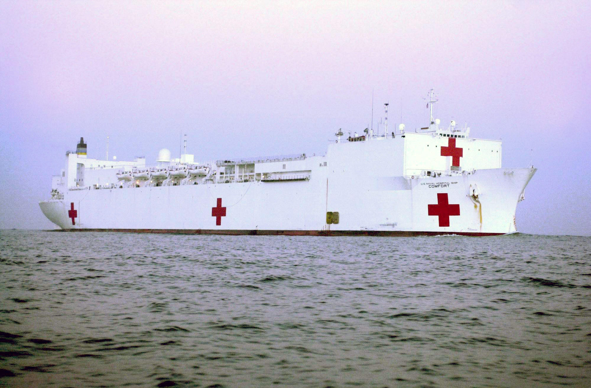 030117-N-5996C-002 Rota, Spain (Jan. 17, 2003) -- Military Sealift Command hospital ship USNS Comfort (T-AH-20) steams toward her first port of call at Naval Station Rota, following her transit across the Atlantic from her home port of Baltimore, Md. The ship is making a logistics stop, taking on supplies and fuel on her way east in support of Operation Enduring Freedom and possible war with Iraq.